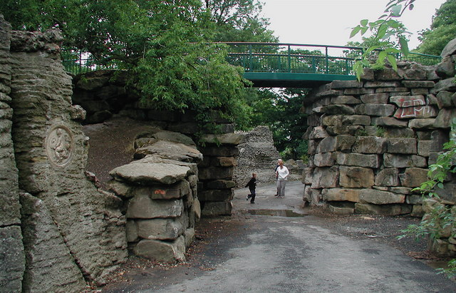 The Khyber Pass, Hull, East Riding of Yorkshire, England.A view of the Khyber Pass folly in Hull's East Park, built during the expansion of the original 1887 park which continued from 1913 until the early 1930s. The folly originally included one of the 17th century stone watchtowers from Hull Citadel but this was removed towards the end of the 20th century when it was considered unsafe. The watchtower has been reinstalled on or close to its original site at Drypool near the mouth of the River Hull (see TA1028 : Citadel watchtower, Hull).